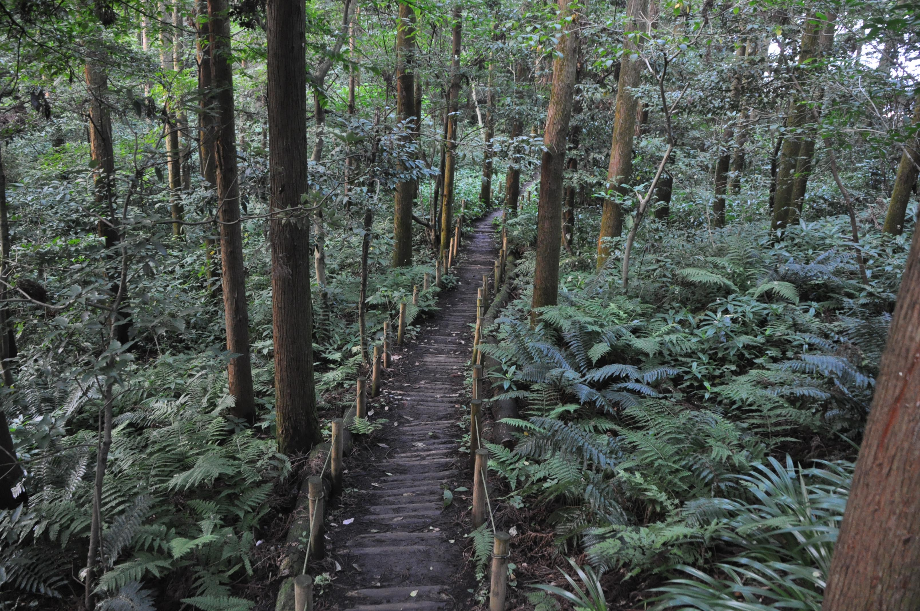 One of the trails in Shinbayashi Park, Fujisawa, Kanagawa, Japan